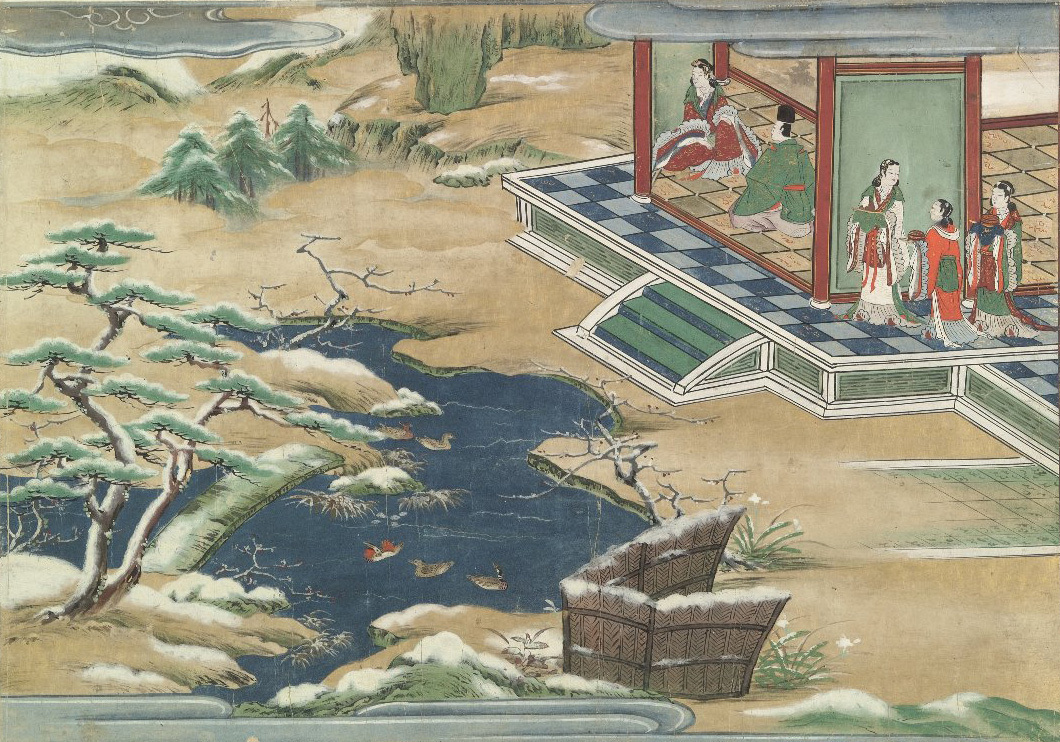 The season of winter in the kingdom under the sea; snow on the palace gardens. Japanese handscroll or emakimono of a Japanese folk tale of the fisherman Urashima Taro, having saved a turtle’s life, transported to Horai, a Turtle palace as the guest of Princess Otohime. On his return he finds that many years have passed in his home village. Opening a magic box given to him by Otohime, he ages. Written in Japan, late 16th or early 17th century. Shelfmark: MS. Jap. c.4(R)